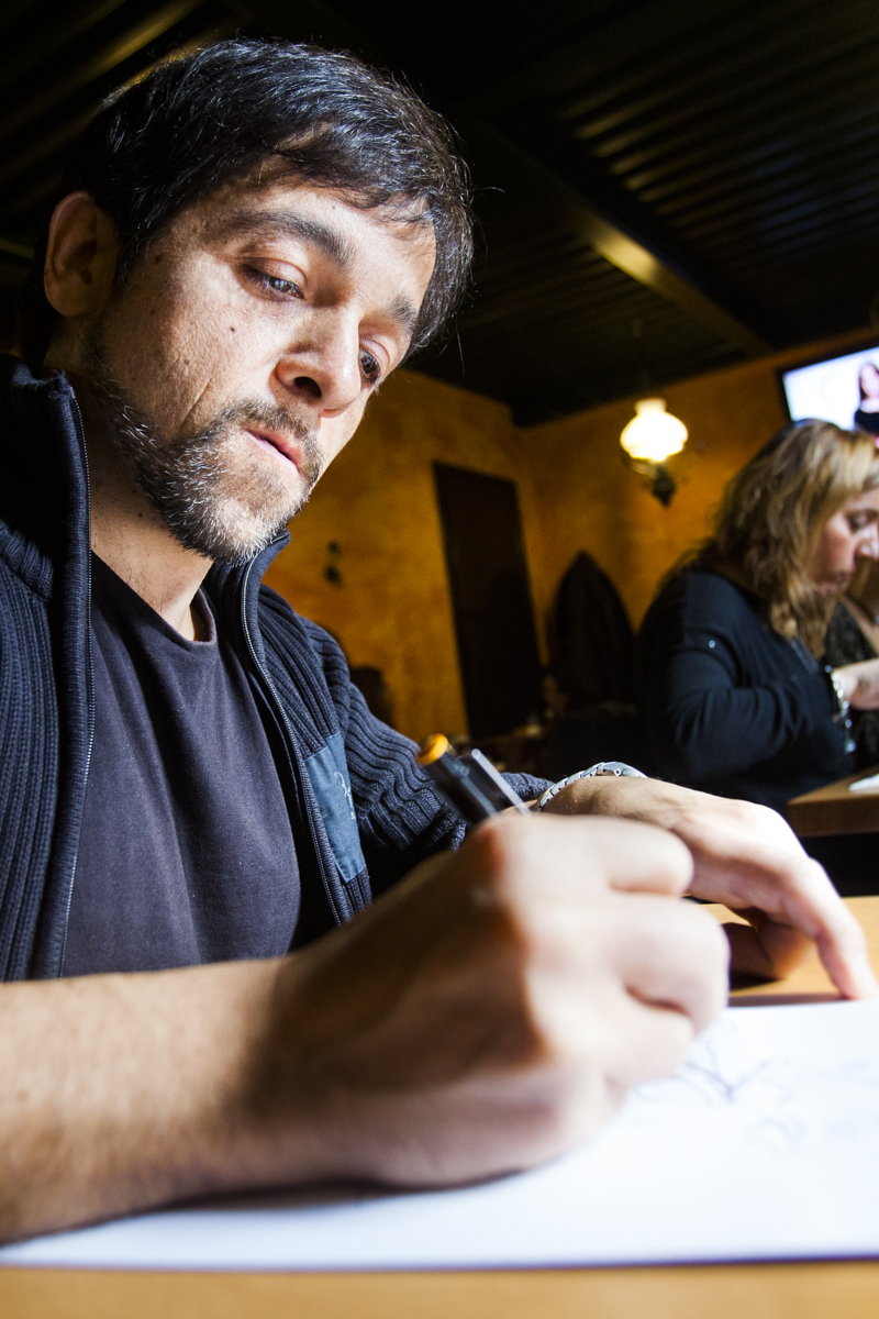 Fabio Celoni, italian cartoonist